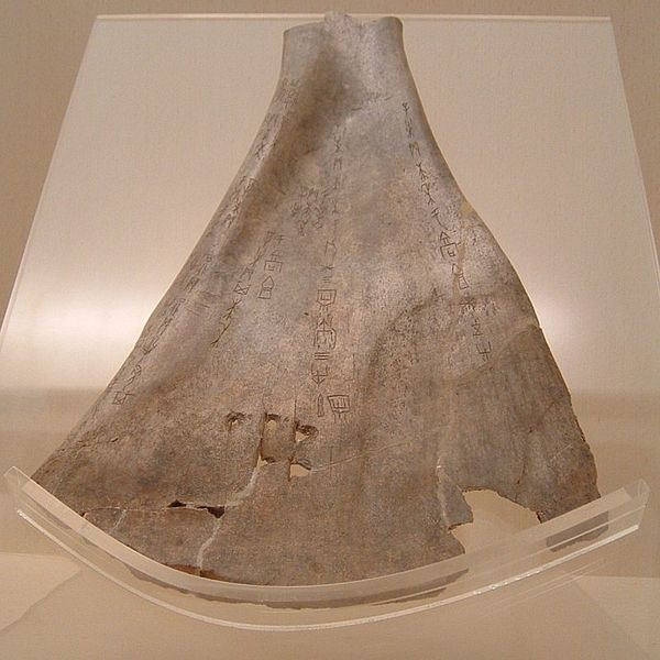 Oracle bones, used in Ancient China.